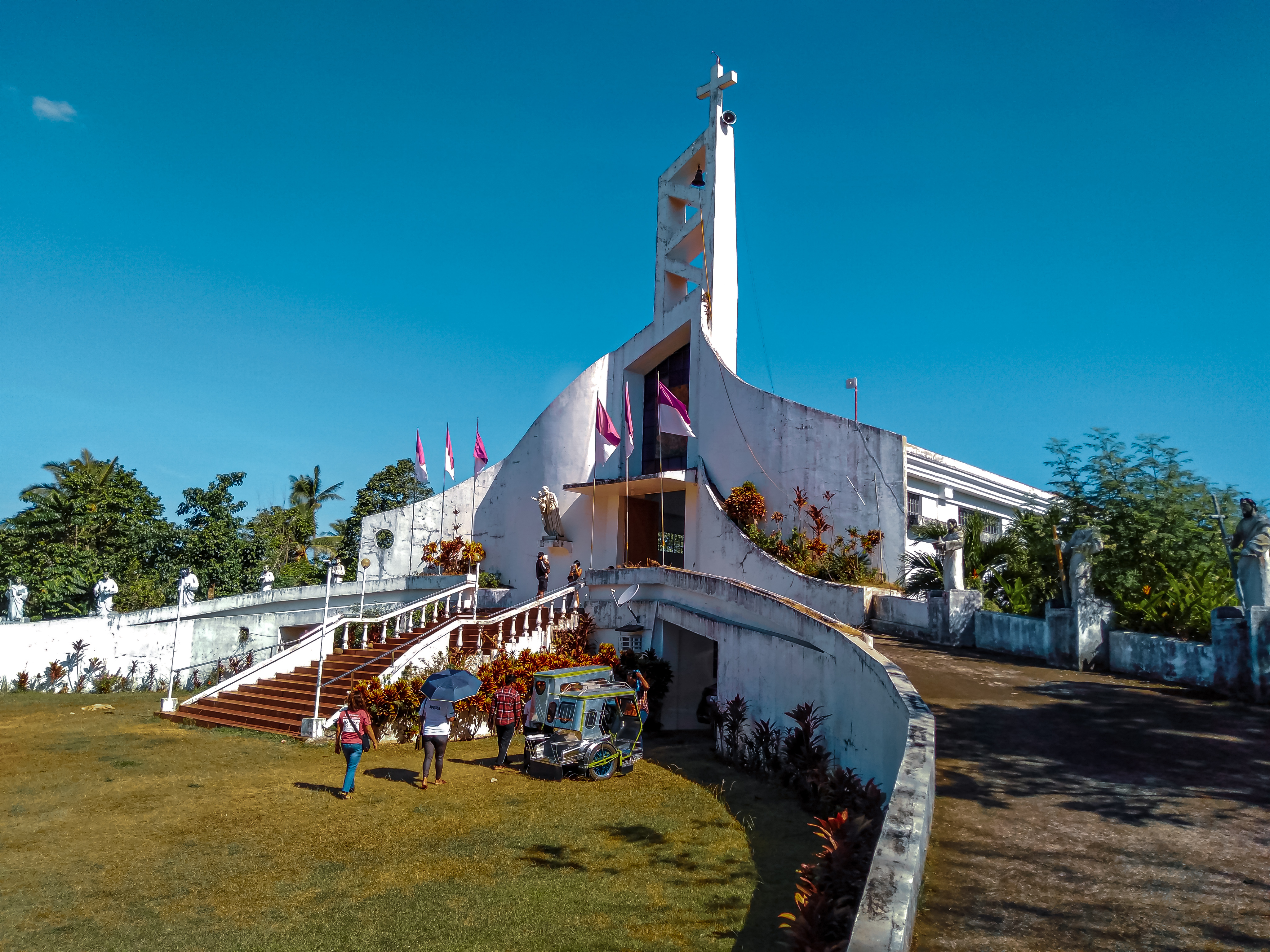 Our Lady of Remedies Church, Curry, Pili, Camarines Sur